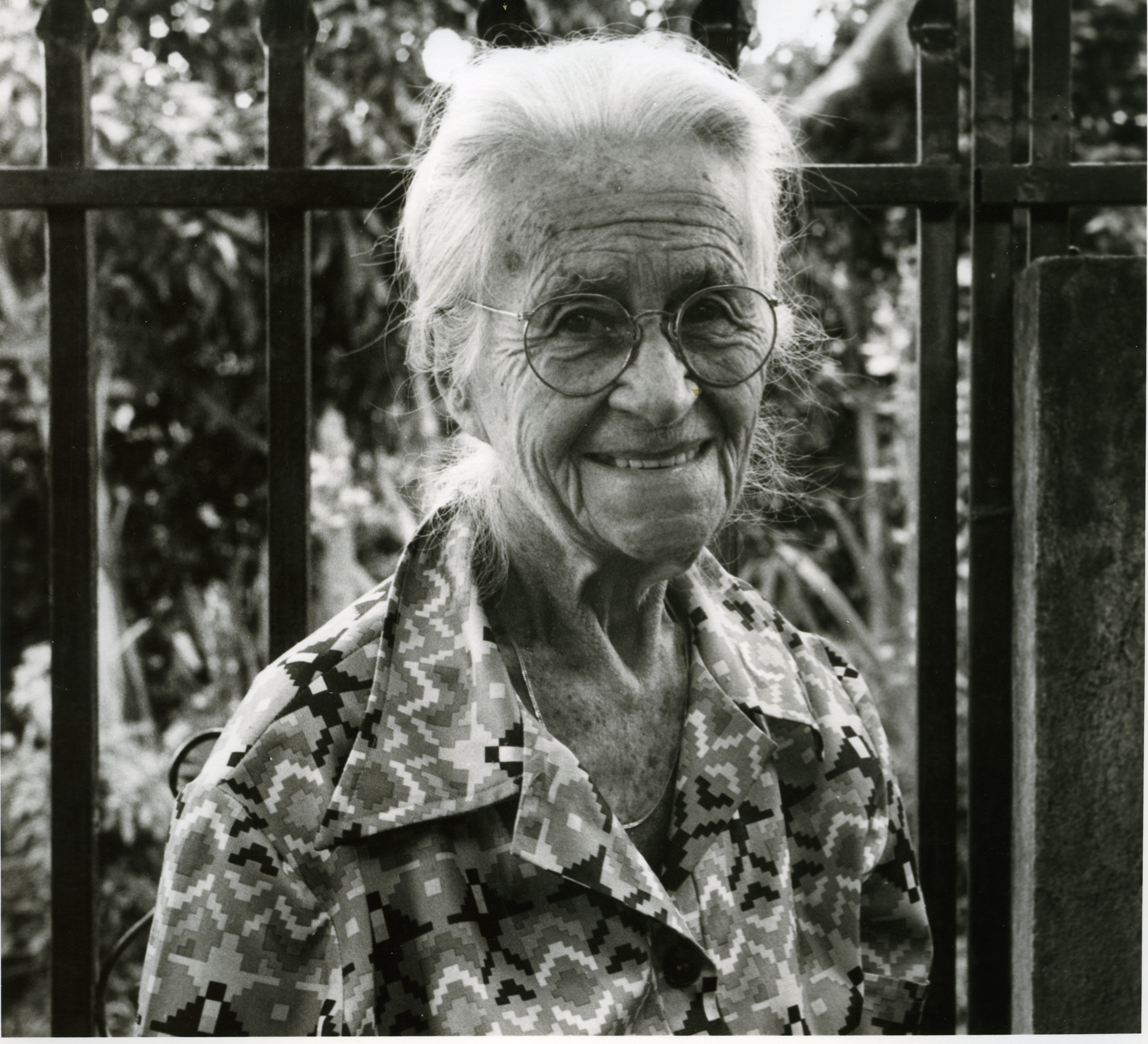 A portrait of Emiia Prieto the year before she died in 1986.